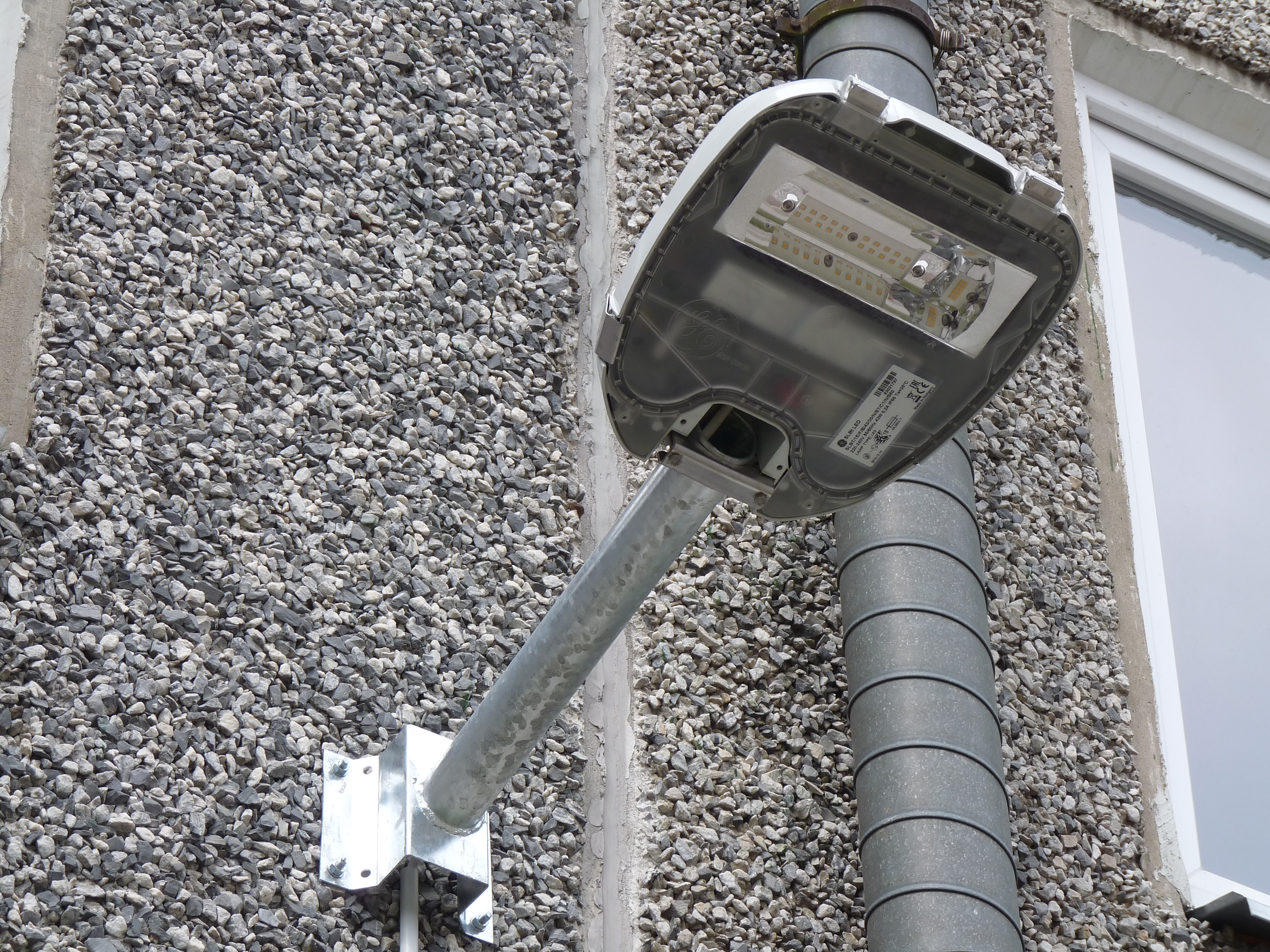 LED outdoor lamp installed on apartment building in Tallinn, Estonia